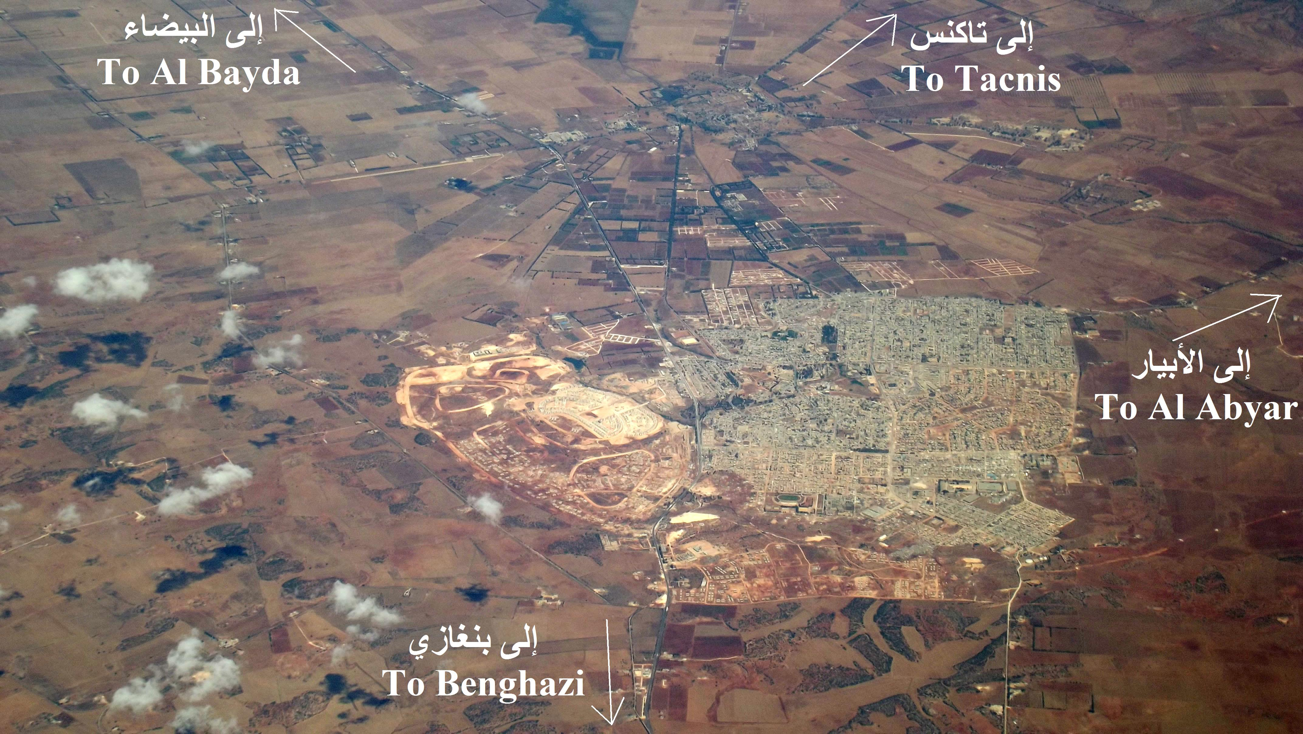 An Aerial image of the Libyan city of Al Marj with directions.